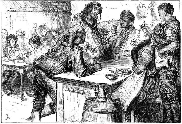 A Tale of Two Cities, The Wine-Shop, Gaspard, Madame de Farge, and her publican husband, by Fred Barnard.